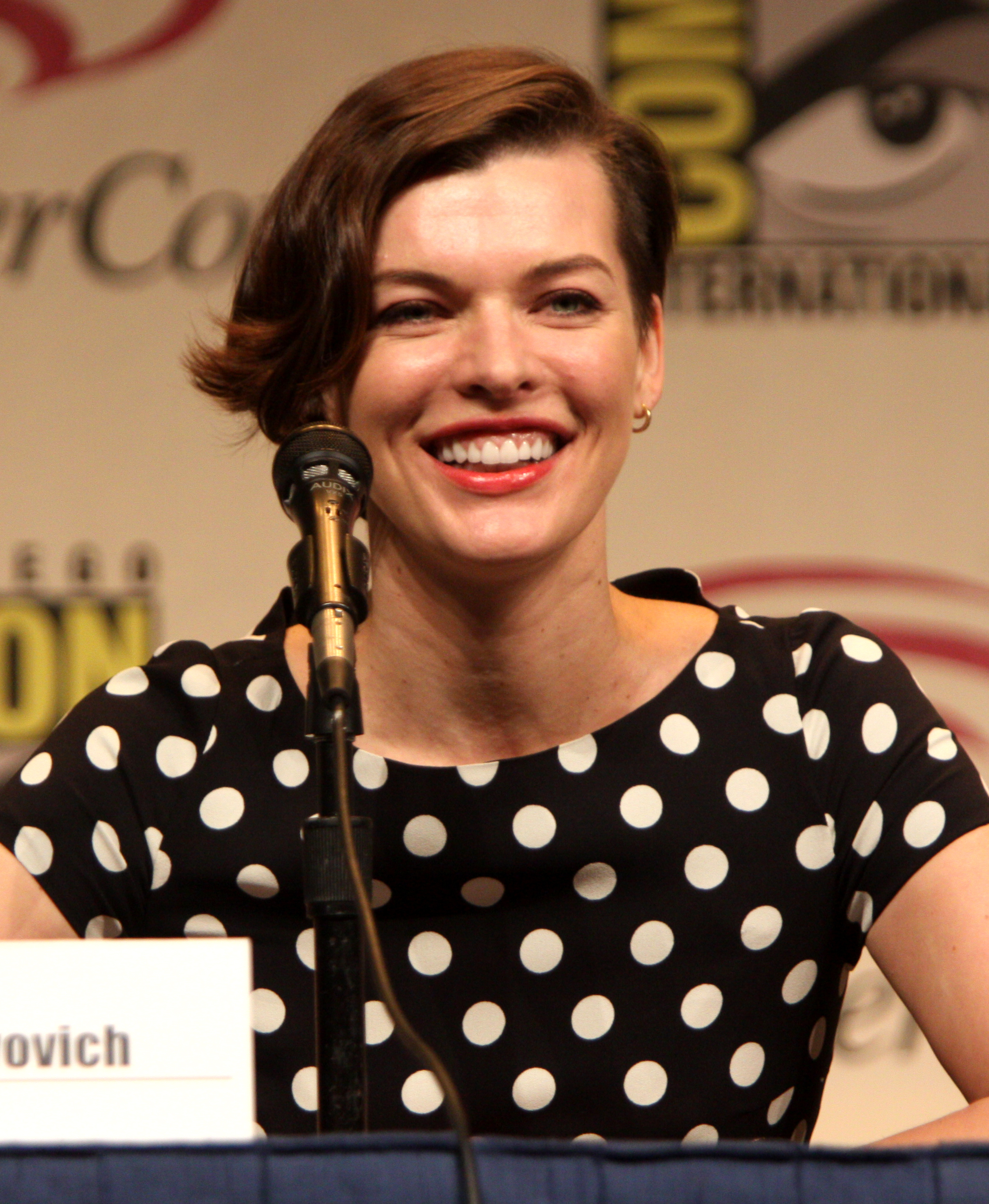 Mila Jovovich speaking at Wondercon 2012 in Anaheim, California on March 17, 2012.